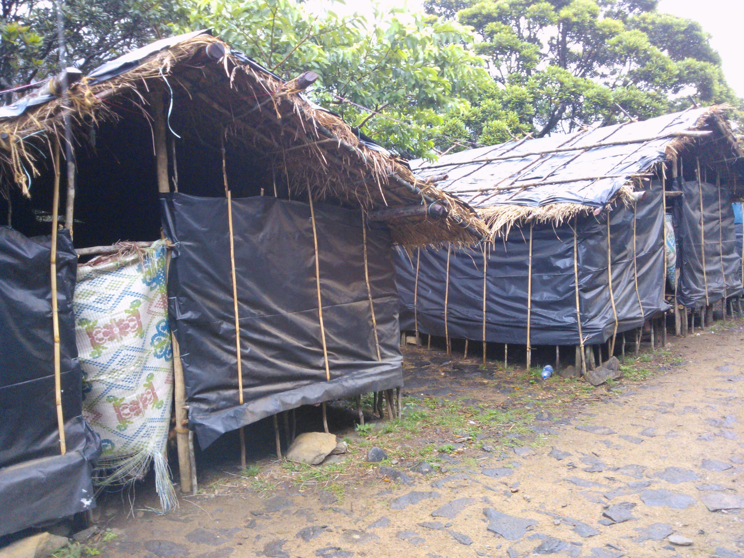 A view of Athirumala Base Camp situated in between the trekking route from Bonacaud to Agasthya Mala.